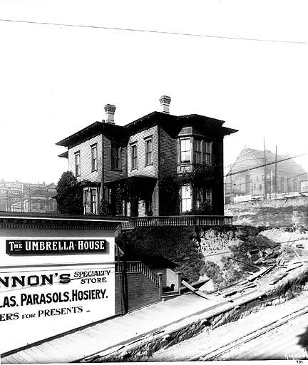 Madison St. being regraded with cable car tracks in foreground. Also shows advertisement for "The Umbrella House." Subjects (LCTGM): Dwellings--Washington (State)--Seattle; Advertising--Washington (State)--Seattle Subjects (LCSH): Grading (Earthwork)--Washington (State)--Seattle